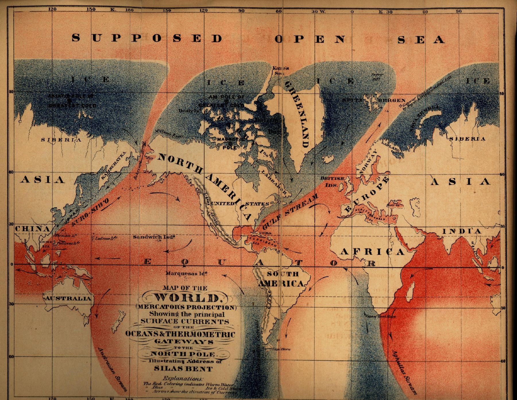 Map showing the supposed Open Polar Sea